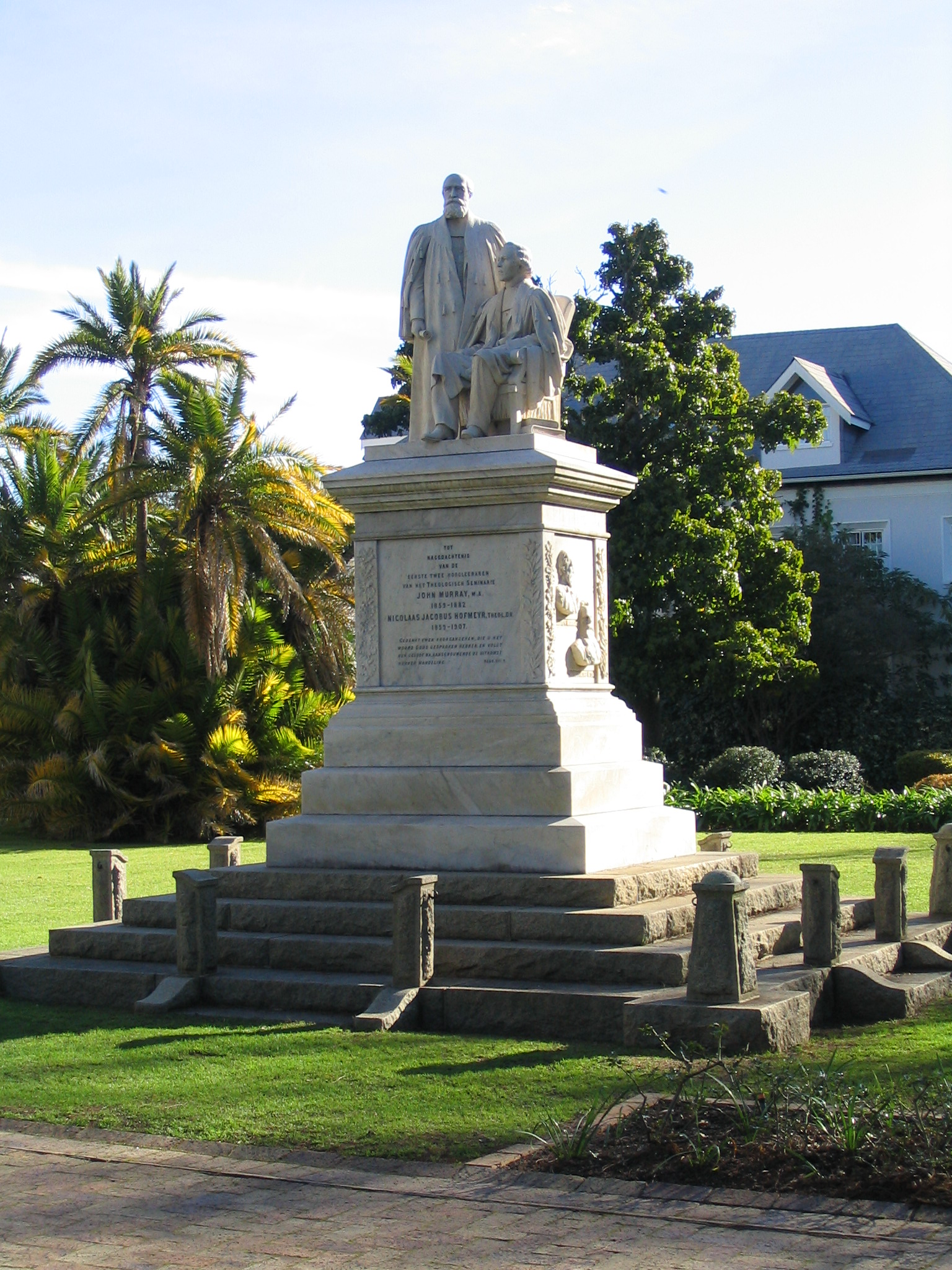 Theological Seminary, 171 Dorp Street, Stellenbosch This media shows a South African Protected Site with SAHRA file reference 9/2/084/0122.